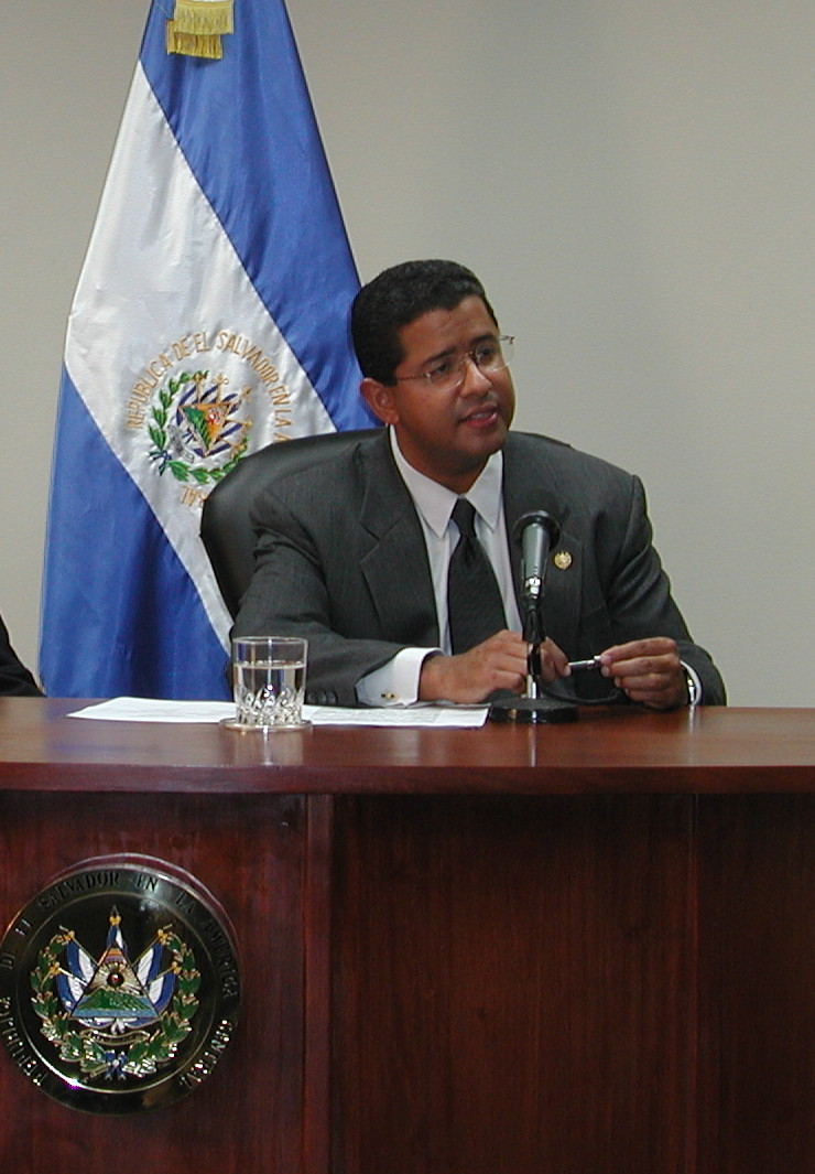 Former Salvadorean president, Francisco Flores Pérez. Image originally uploaded in English Wikipedia.